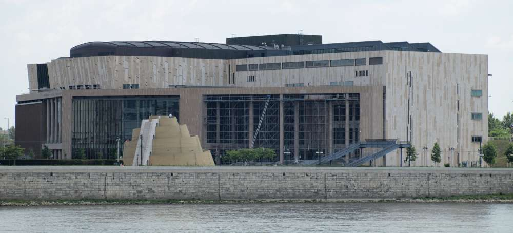 The Palace of Arts, Budapest, IX. ker., near Lágymányosi híd